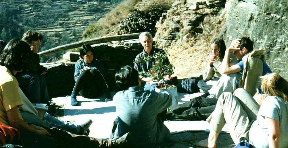 Brian Goodwin in a village in the Himalayas, near Shimla, India addressing to students of Global Ecology. Photo by R. S. Pirta